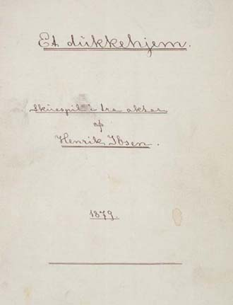 Title page in the manuscript of A Doll's House, play by Henrik Ibsen